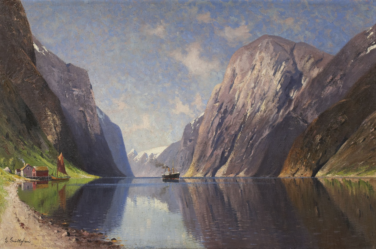 Fjord with steamer